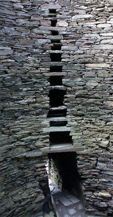 Mousa Broch, Shetland, Scotland - entrance with galleries (from inside)